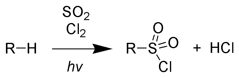 Description: Reaction scheme of the Reed reaction. Author, date of creation: selfmade by ~K, 12 November 2005. Source: - Copyright: Public domain. (PD) Comments: high-resolution b/w PNG; ChemDraw / The GIMP.